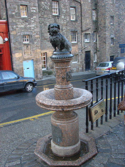 The 'Greyfriars Bobby' Statue This is a statue of one of the most famous dogs in history, who , in the 19th century lay for 14 years on the grave of his dead master.